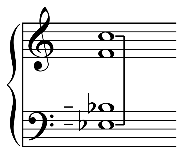 Semiditone as two octaves minus three justly tuned fifths.